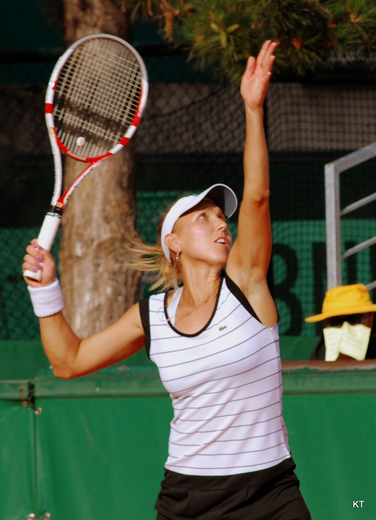 Elena Vesnina during her 2nd round mixed doubles match with Max Mirnyi, against Jamie Murray & Nadia Petrova. Murray & Petrova won 6-3, 4-6, 13-11. Day 7 of Roland Garros 2011.